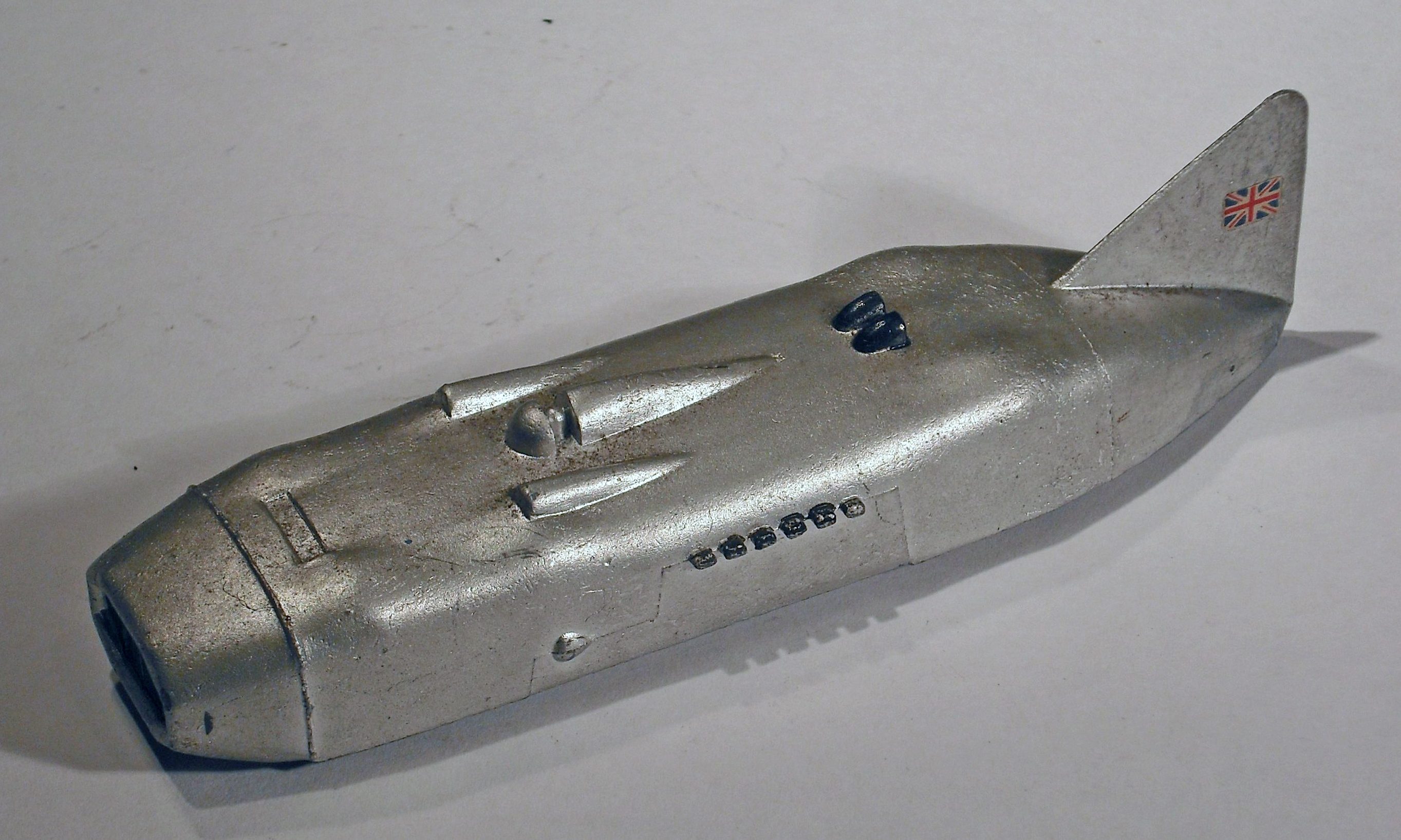 Dinky Toy' model of Captain G.E.T. Eyston's land speed record-breaking car, Thunderbolt. In November 1937 Captain G.E.T. Eyston, in his specially designed car "Thunderbolt", set up a world land-speed record of 312.20 mph on the Bonneville Salt Flats, Utah, U.S.A. This was 11 mph above the previous record, set up in 1935 by Sir Malcolm Campbell in his "Bluebird". Captain Eyston's car has two supercharged Rolls-Royce aero engines developing 4,500 bhp, and is fitted with a special streamlined body of aluminium alloy. It is 30ft 5in long, and its total weight is seven tons. The car is portrayed as it was in its initial season of 1937, with the large octagonal radiator grille.